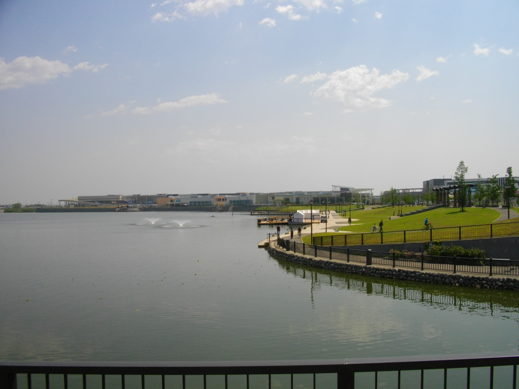 Osagami Reservoir